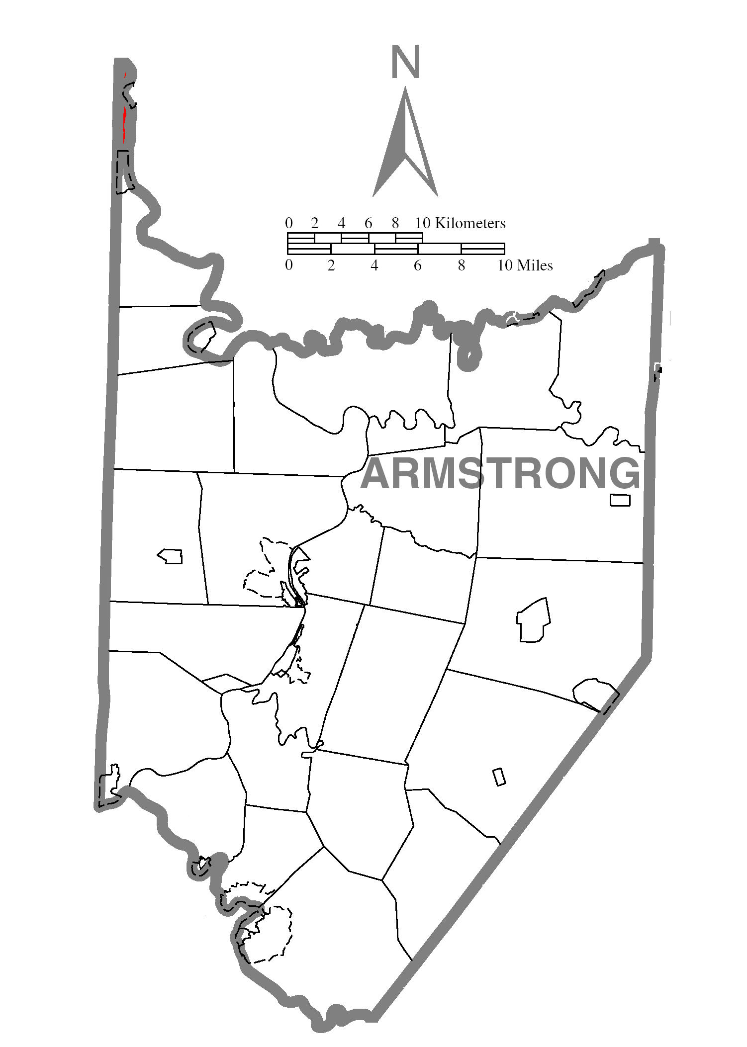 A map of Armstrong County showing Hovey Township, Pennsylvania (alternate) highlighted on the map.